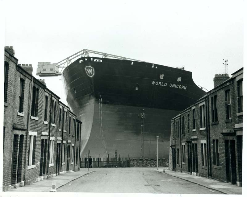 This is a view of World Unicorn ready for launch by Swan Hunter, 1973. Image reference: DS.SWH/4/PH/5/28/2 This image is part of a small selection of photographs from our outstanding shipbuilding collections, which have just been added to UNESCO's UK Memory of the World register. (Copyright) We're happy for you to share these digital images within the spirit of The Commons. Please cite 'Tyne & Wear Archives & Museums' when reusing. Certain restrictions on high quality reproductions and commercial use of the original physical version apply though; if you're unsure please